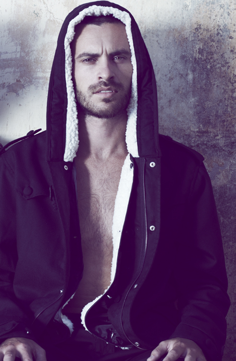 2Feet Music (A Division of Sheer Sound) Farryl Purkiss promo picture